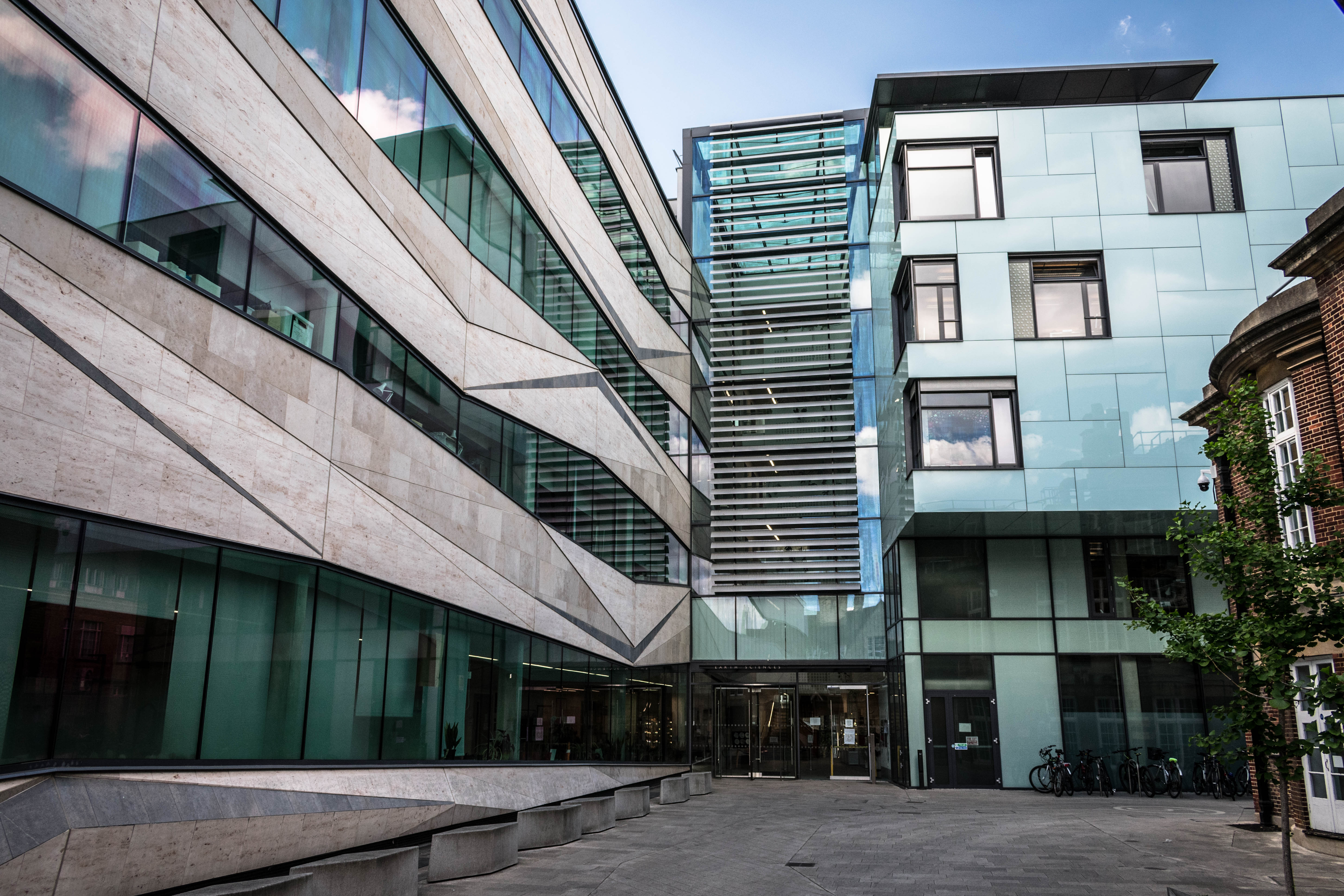 Entrance of the Department of Earth Sciences, University of Oxford.